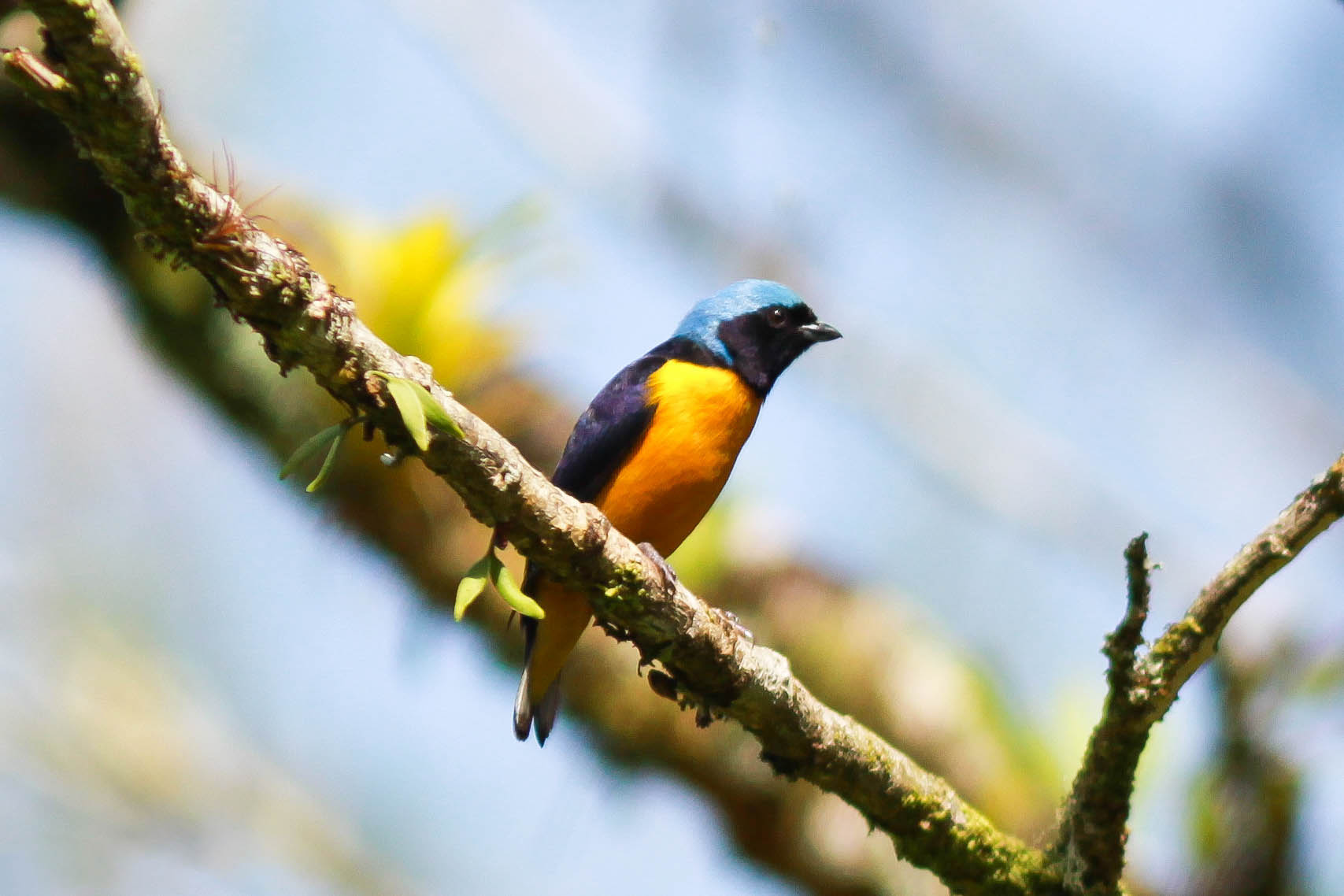 Golden-rumped Euphonia, this was taken in Ubatuba, southeast Brazil